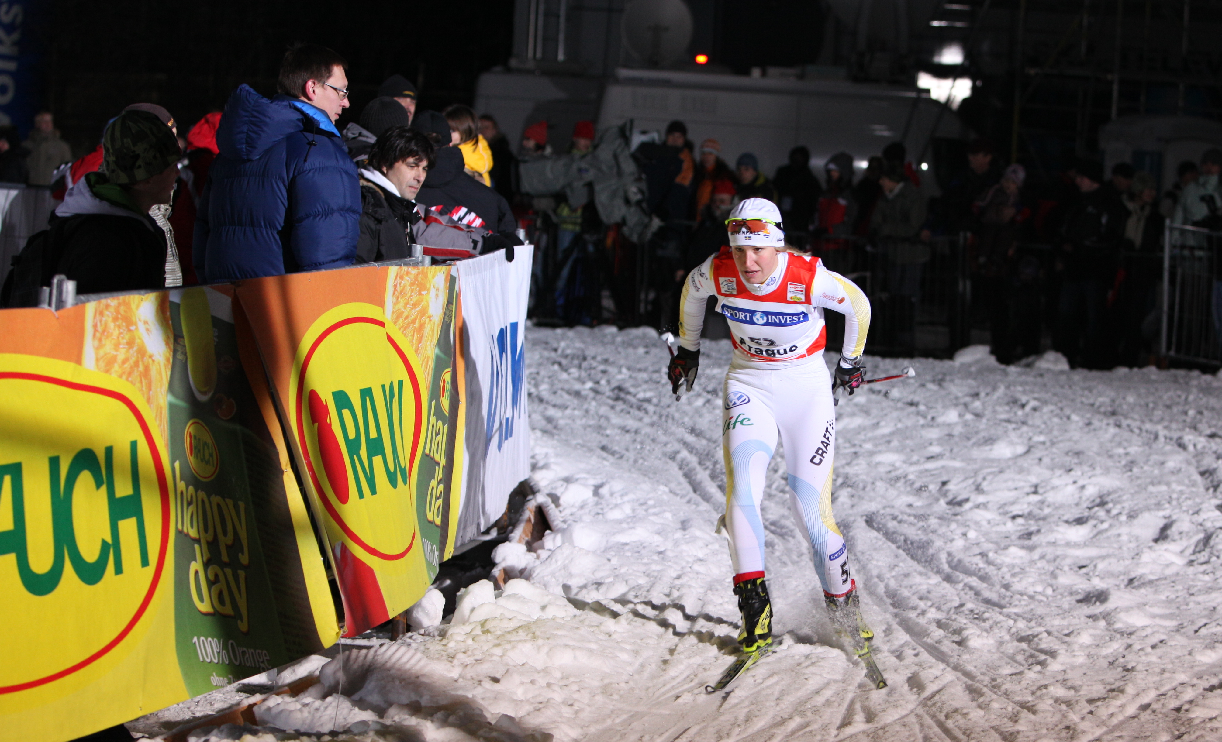 Magdalena Pajala competes at Ski Sprint Praha in 2010